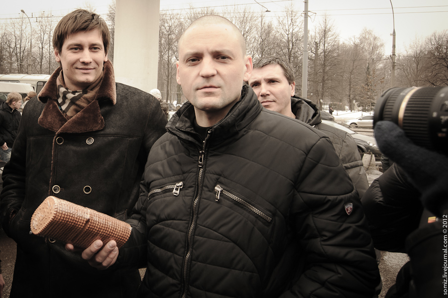 18 of march 2012. Moscow.